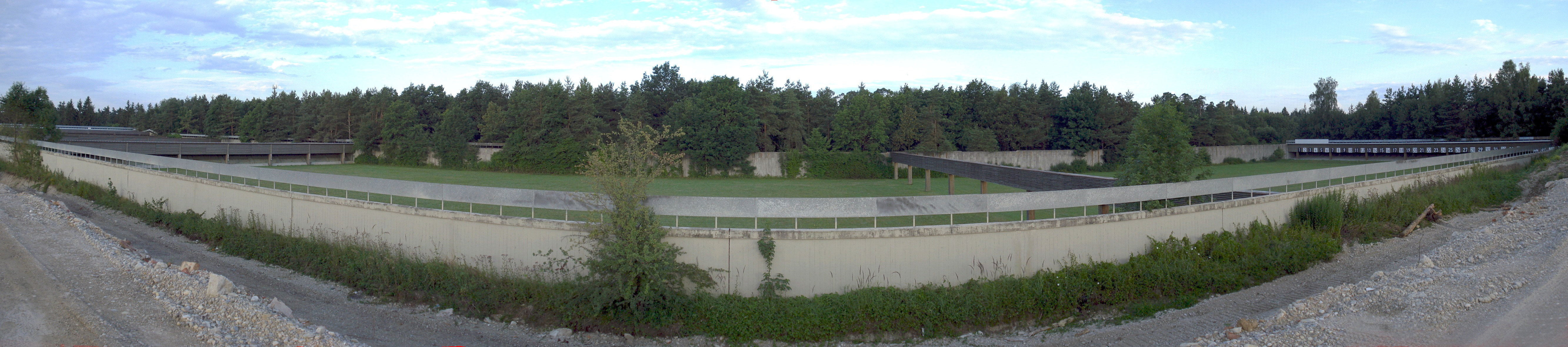 Olympic Shooting Range in Munich